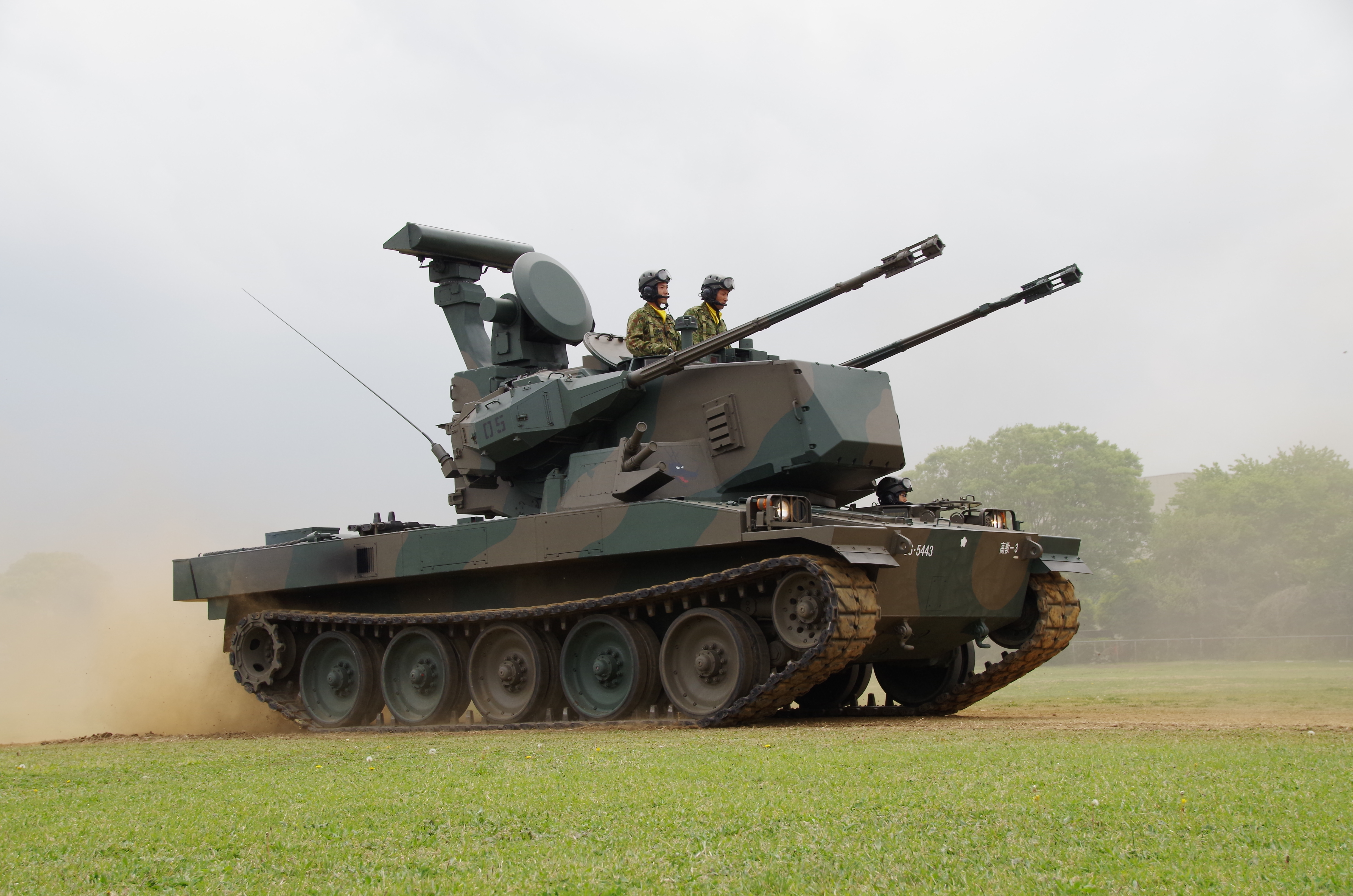 Taken by Los688,29-Apr-2014,JGSDF Camp-Shimoshizu.JGSDF Type87 Self-Propelled Anti-Aircraft Gun,Air Defence Training unit (JGSDF Air Defense School).PD-self. ja:2014年4月29日、投稿者撮影。陸上自衛隊下志津駐屯地記念行事。87式自走高射機関砲、高射教導隊/高射学校。